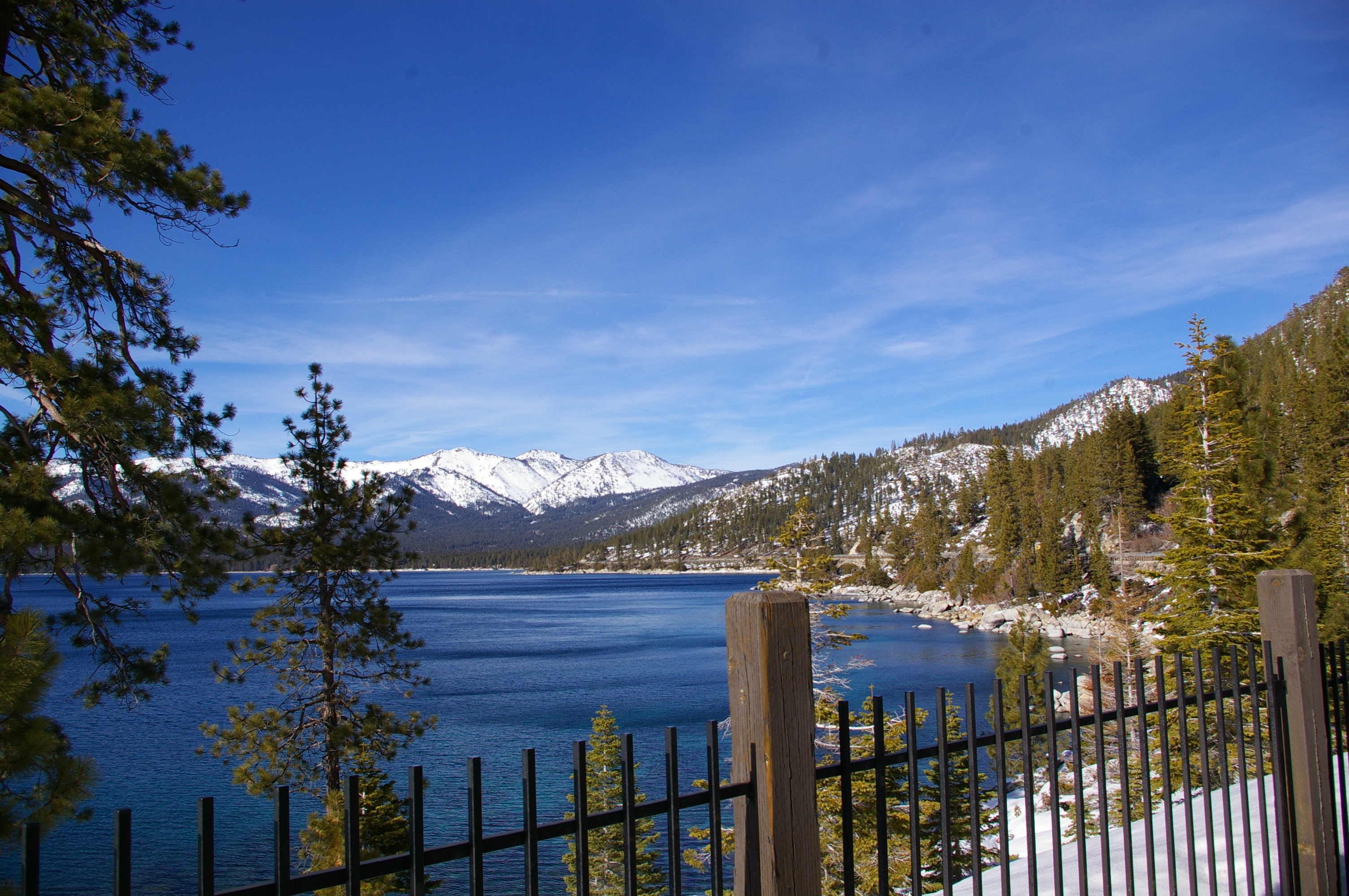 Lake Tahoe as seen from Nevada State Route 28